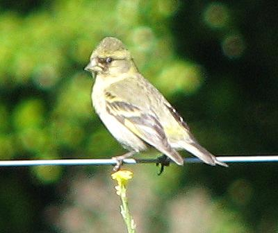 Hembra chilena. Description: Black chined siskin female (Carduelis barbata) Creator: Juan Tassara. Date: 21 de enero de 2008 (21-01-2008) Place: Chile